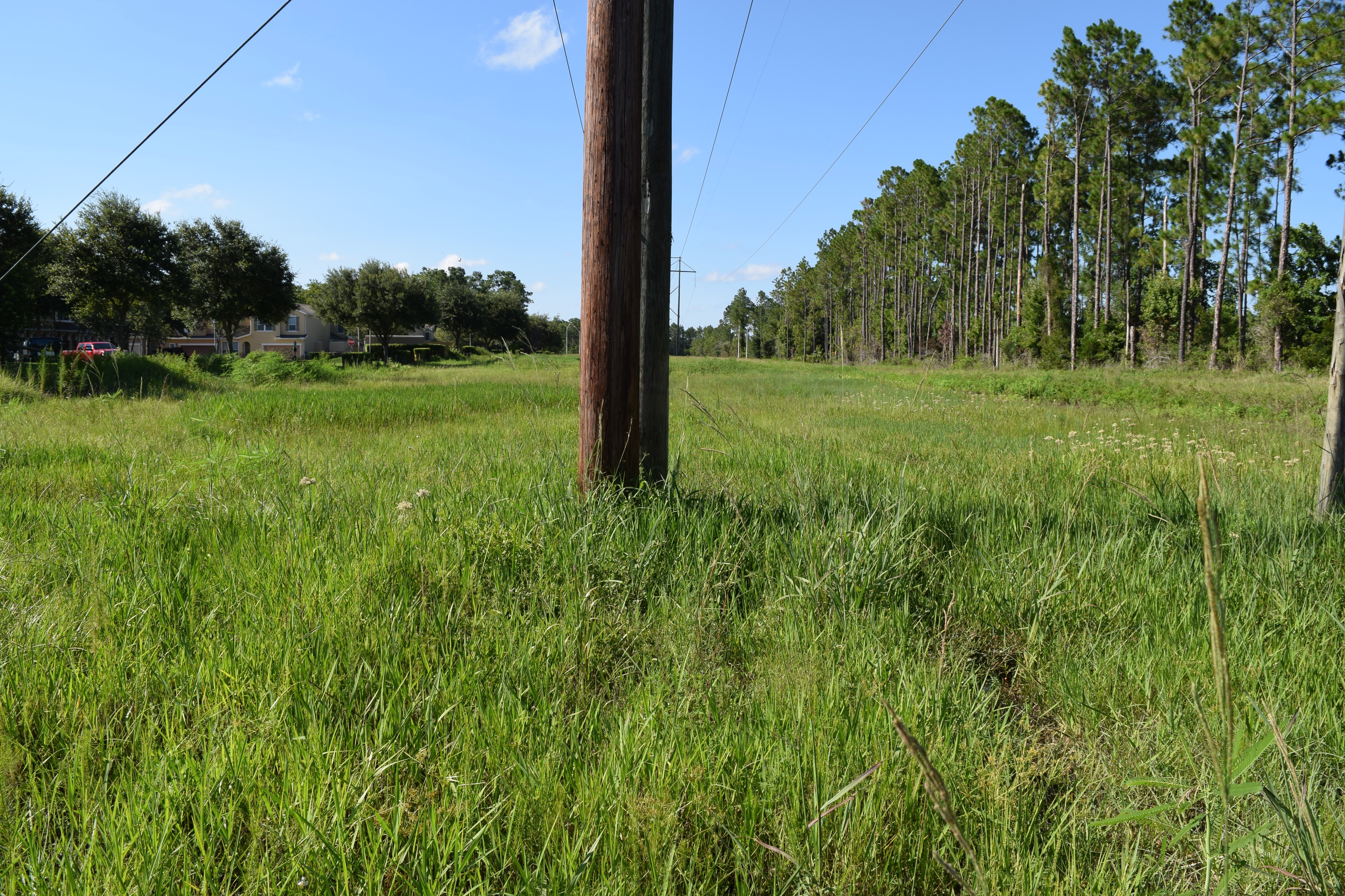 Julington-Durbin Peninsula Powerline Right of Way 30°07'56" N; 81°32'21" W